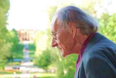 german author and writer of lyrics gottlob haag